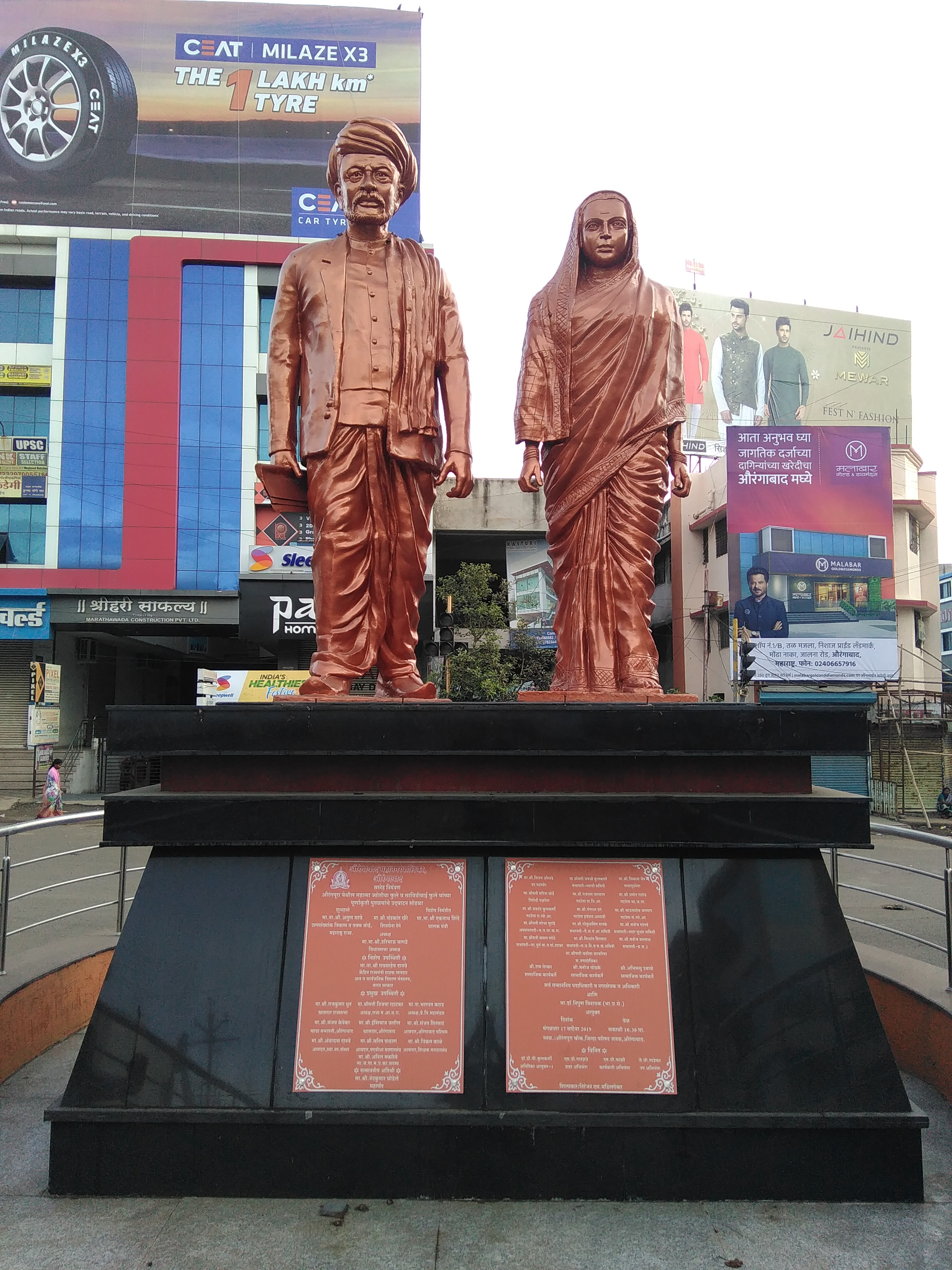 Statues of Jyotirao Phule and Savitribai Phule at Mahatma Jyotirao Phule Chowk, Aurangpura in Aurangabad city, Maharashtra India.